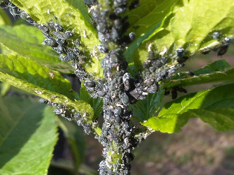 Plant infested with Black bean aphids (Aphis fabae) in London, England.